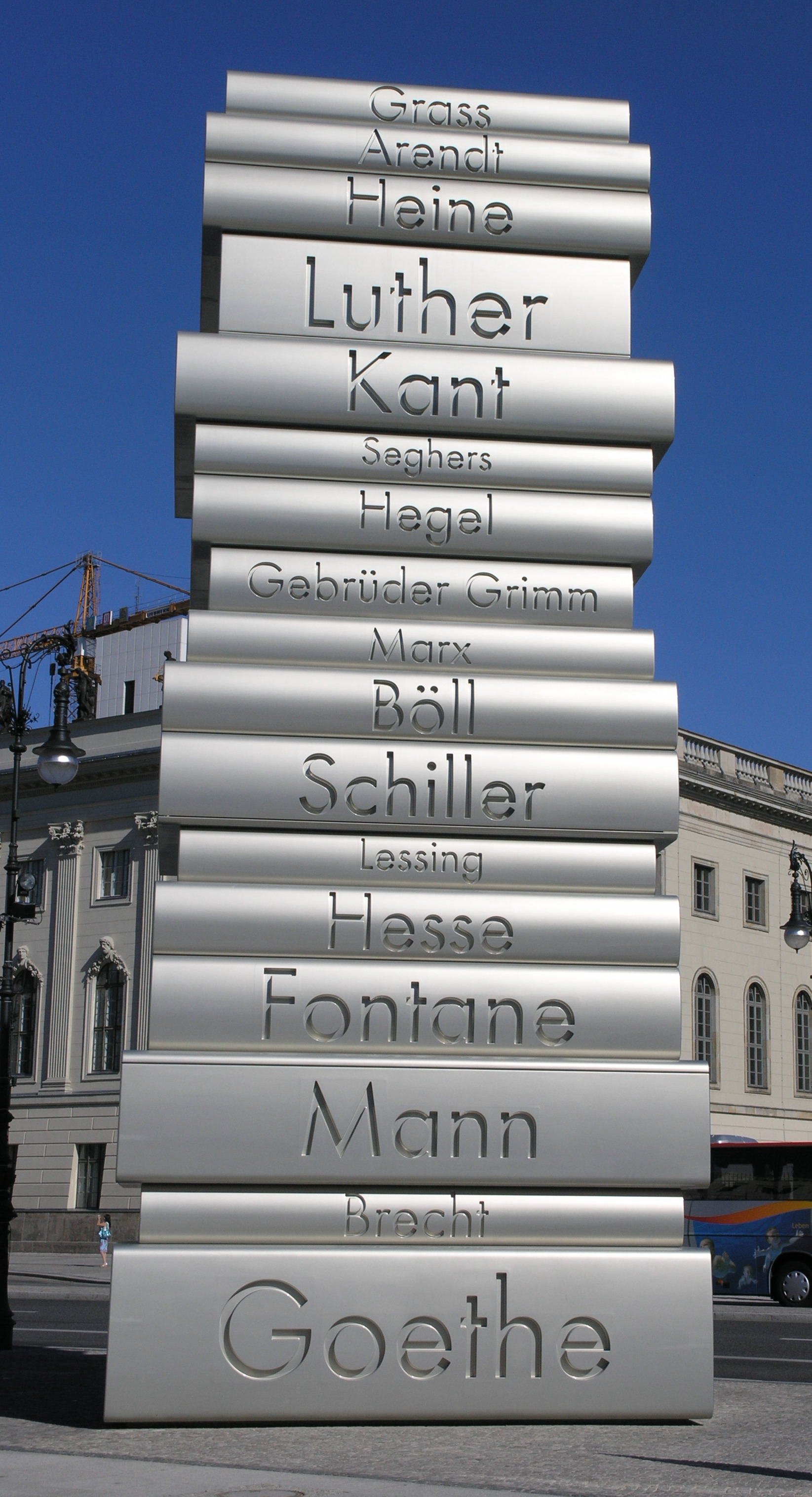 Bebelplatz books